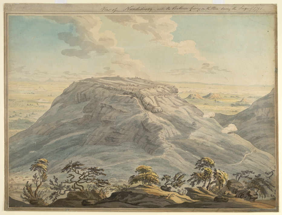 Watercolor of Nandidrug Hill ("Nandidroog") in 1791; painted during the October 1791 siege by Colin Mackenzie, then a British officer in the Third Anglo-Mysore War. The original is in the British Library collection.